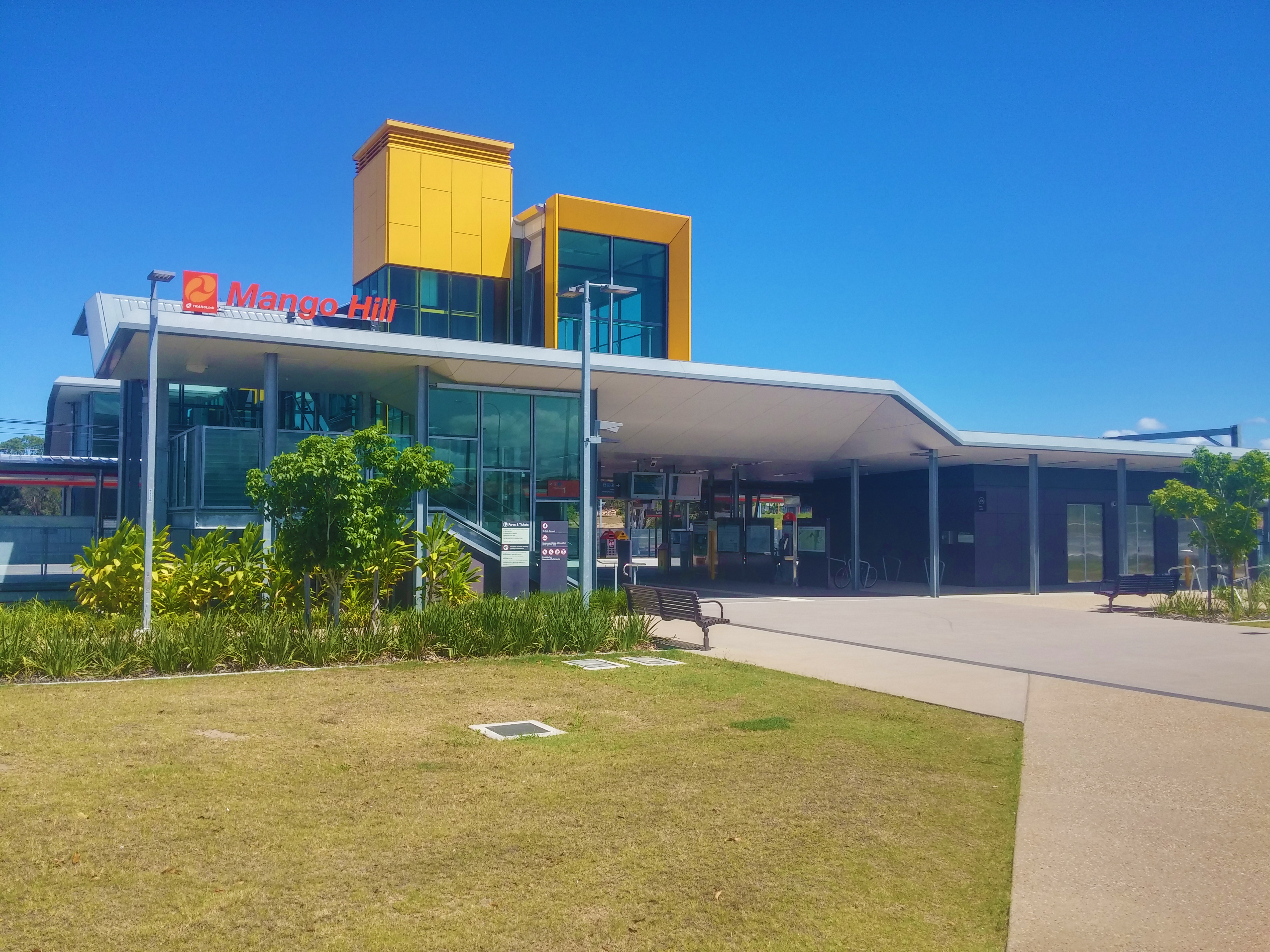 Mango Hill railway station on the Moreton Bay line in Brisbane.